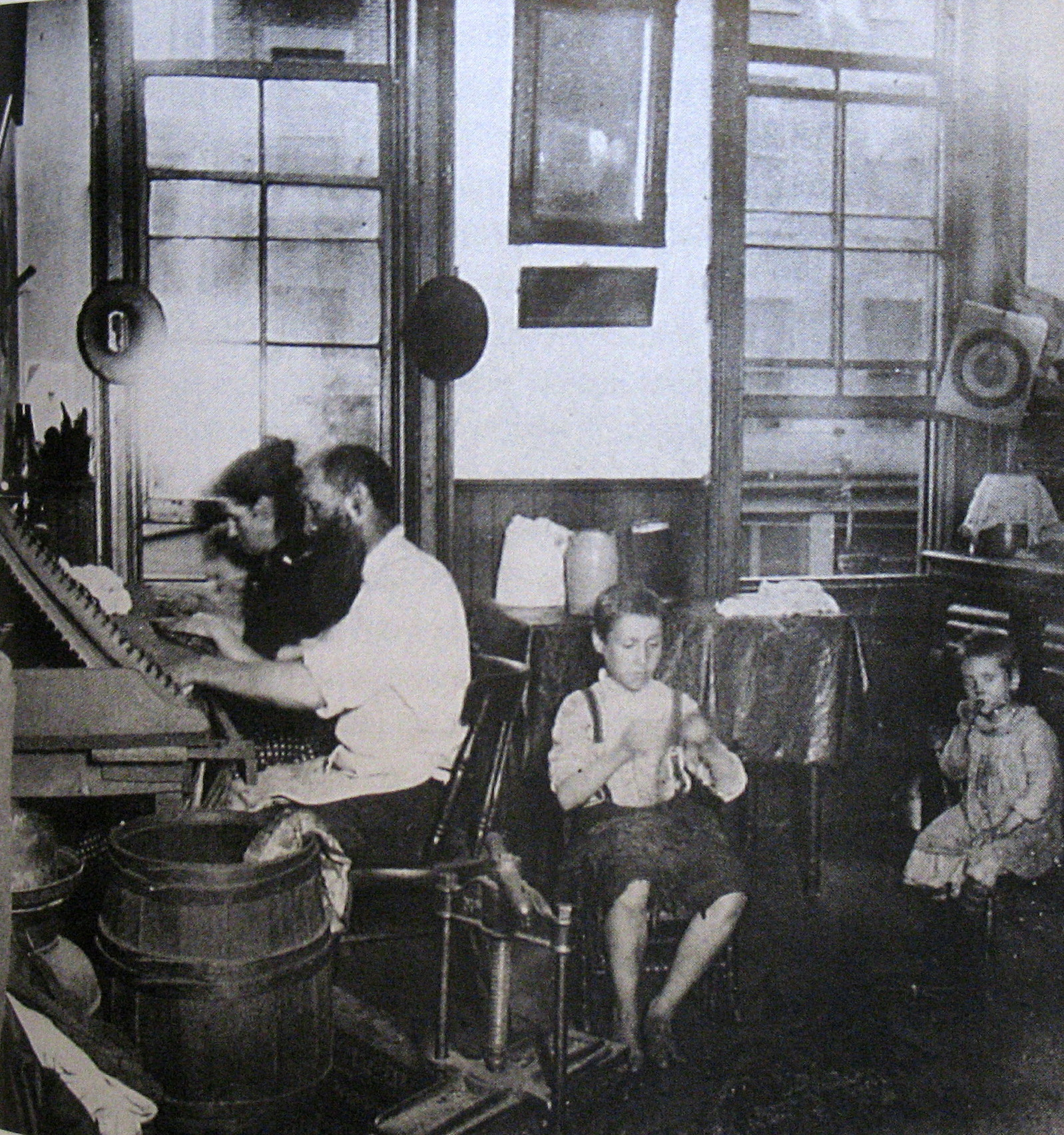 Bohemian cigarmakers at work in their tenement